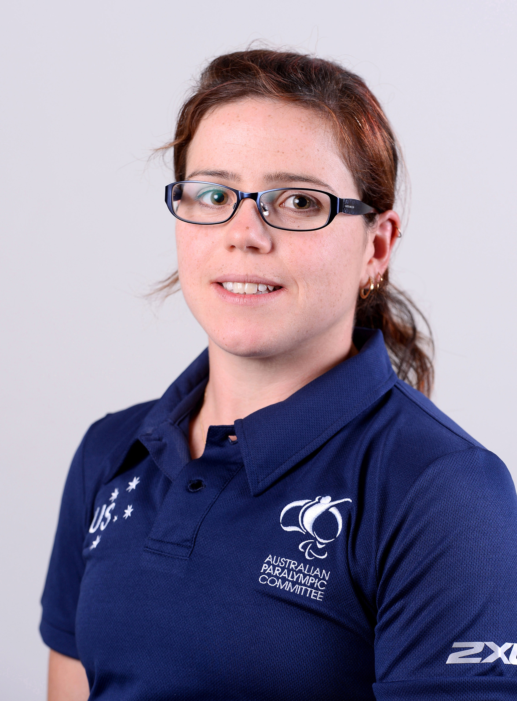 Portrait photograph of Jodi Elkington taken at team processing session for shadow members of 2016 Australian Paralympic team